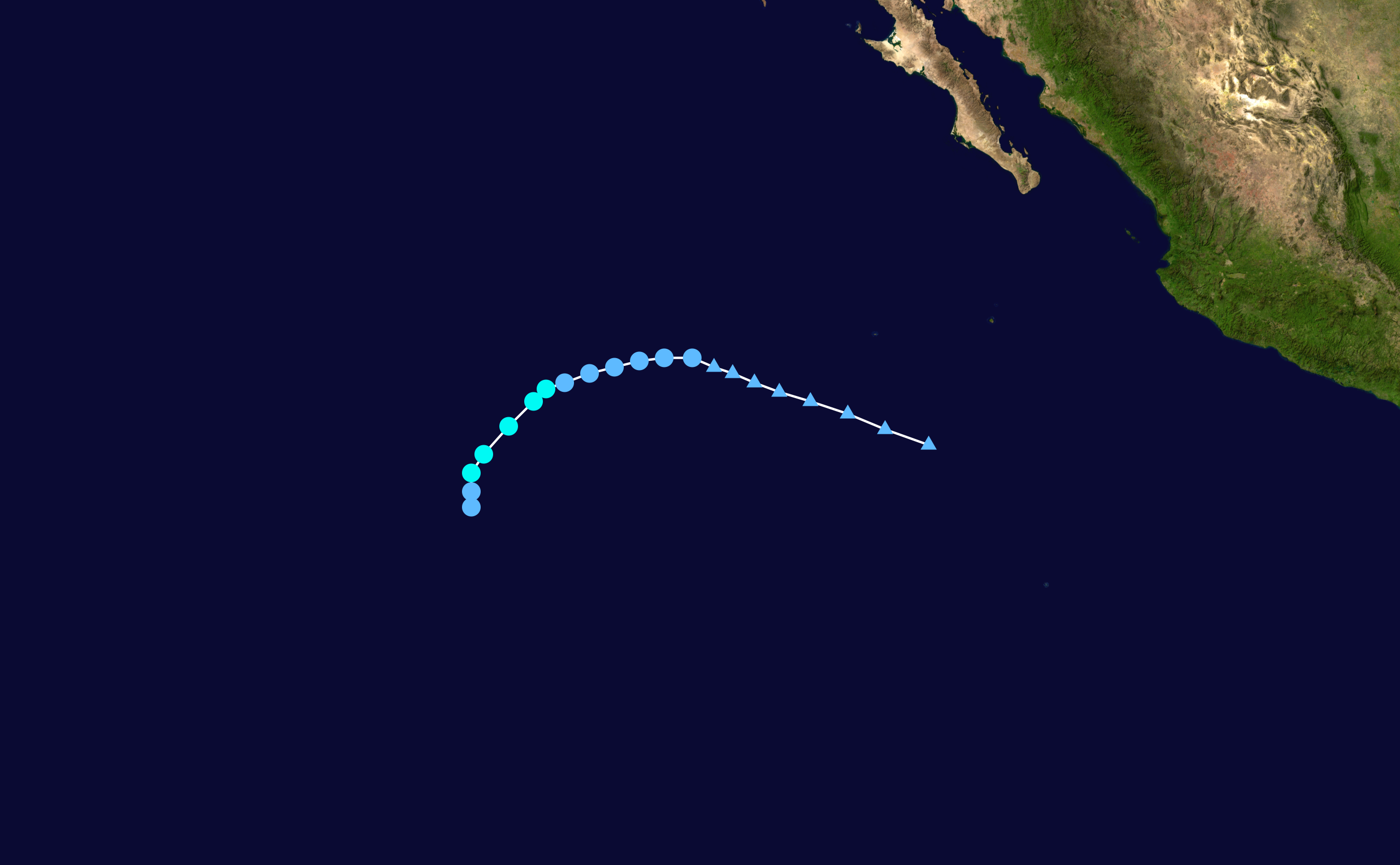 Track map of Tropical Storm Olivia of the 2006 Pacific hurricane season. The points show the location of the storm at 6-hour intervals. The colour represents the storm's maximum sustained wind speeds as classified in the Saffir–Simpson scale (see below), and the shape of the data points represent the nature of the storm, according to the legend below. Saffir–Simpson scale Tropical depression≤38 mph≤62 km/h Category 3111–129 mph178–208 km/h Tropical storm39–73 mph63–118 km/h Category 4130–156 mph209–251 km/h Category 174–95 mph119–153 km/h Category 5≥157 mph≥252 km/h Category 296–110 mph154–177 km/h Unknown Storm type Tropical cyclone Subtropical cyclone Extratropical cyclone / Remnant low / Tropical disturbance / Monsoon depression